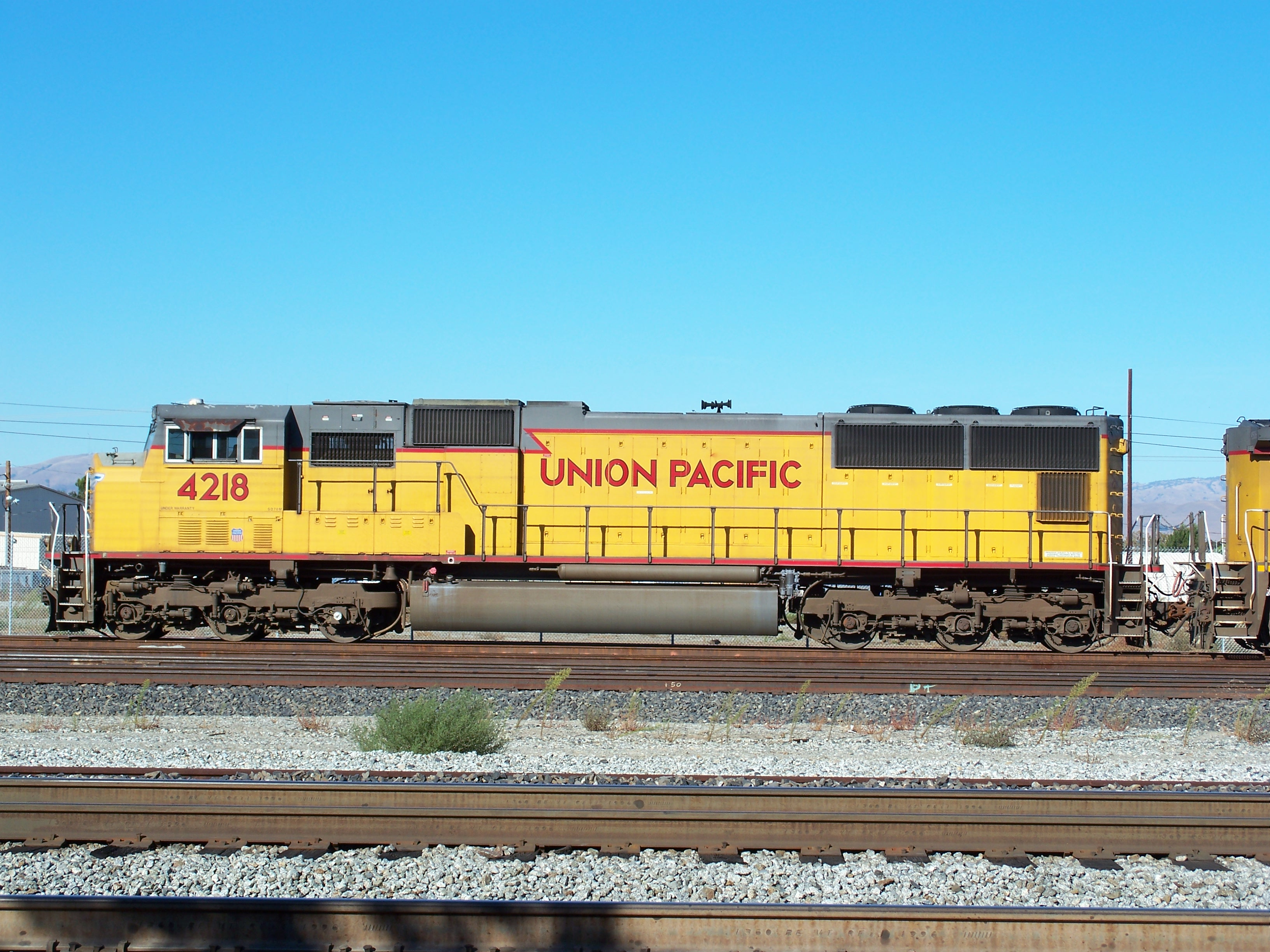 Union Pacific EMD SD70M diesel Locomotive 4218 in Santa Clara, California, USA.